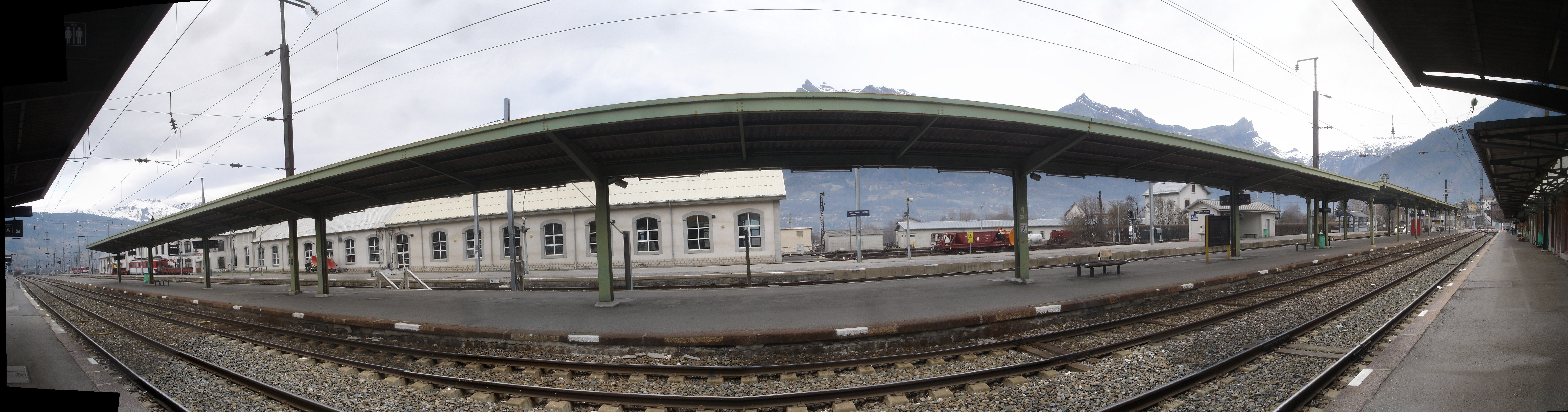 Panorama de la Gare de St-Gervais les Bains le Fayet en 2011 un dimanche